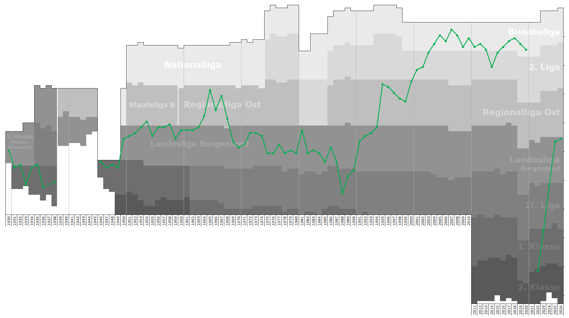 Chart of end-season table positions of Mattersburg in the Austrian football league system. Data source: RSSSF, , regiowiki.at, bfv.at, wikipedia